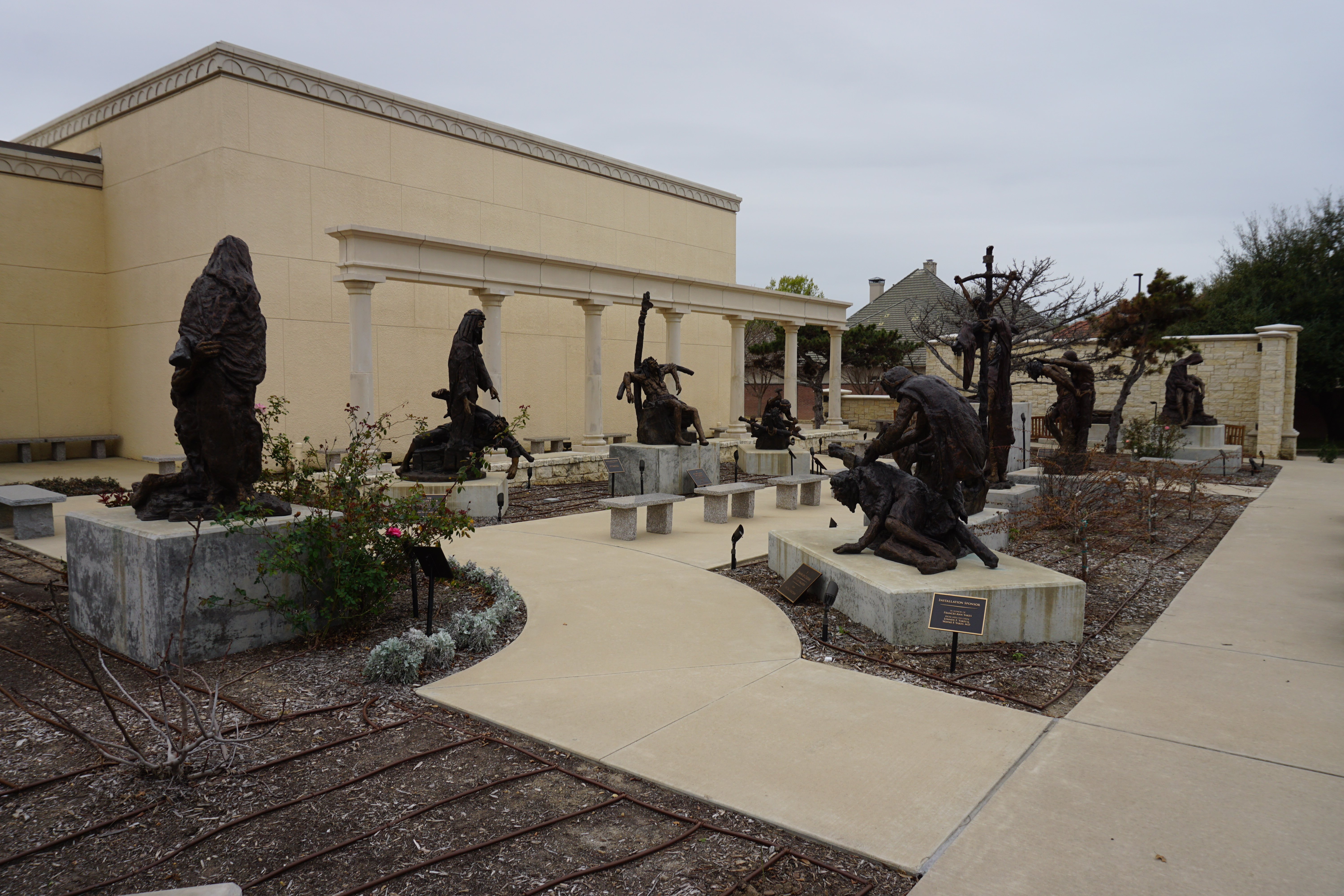 The Via Dolorosa Sculpture Garden at the Museum of Biblical Art in Dallas, Texas (United States).